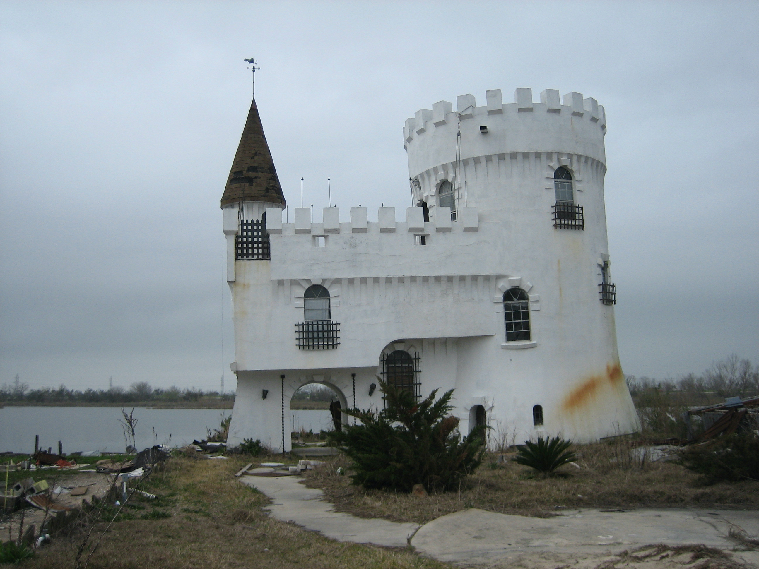 New Orleans after Hurricane Katrina: Irish Bayou Castle